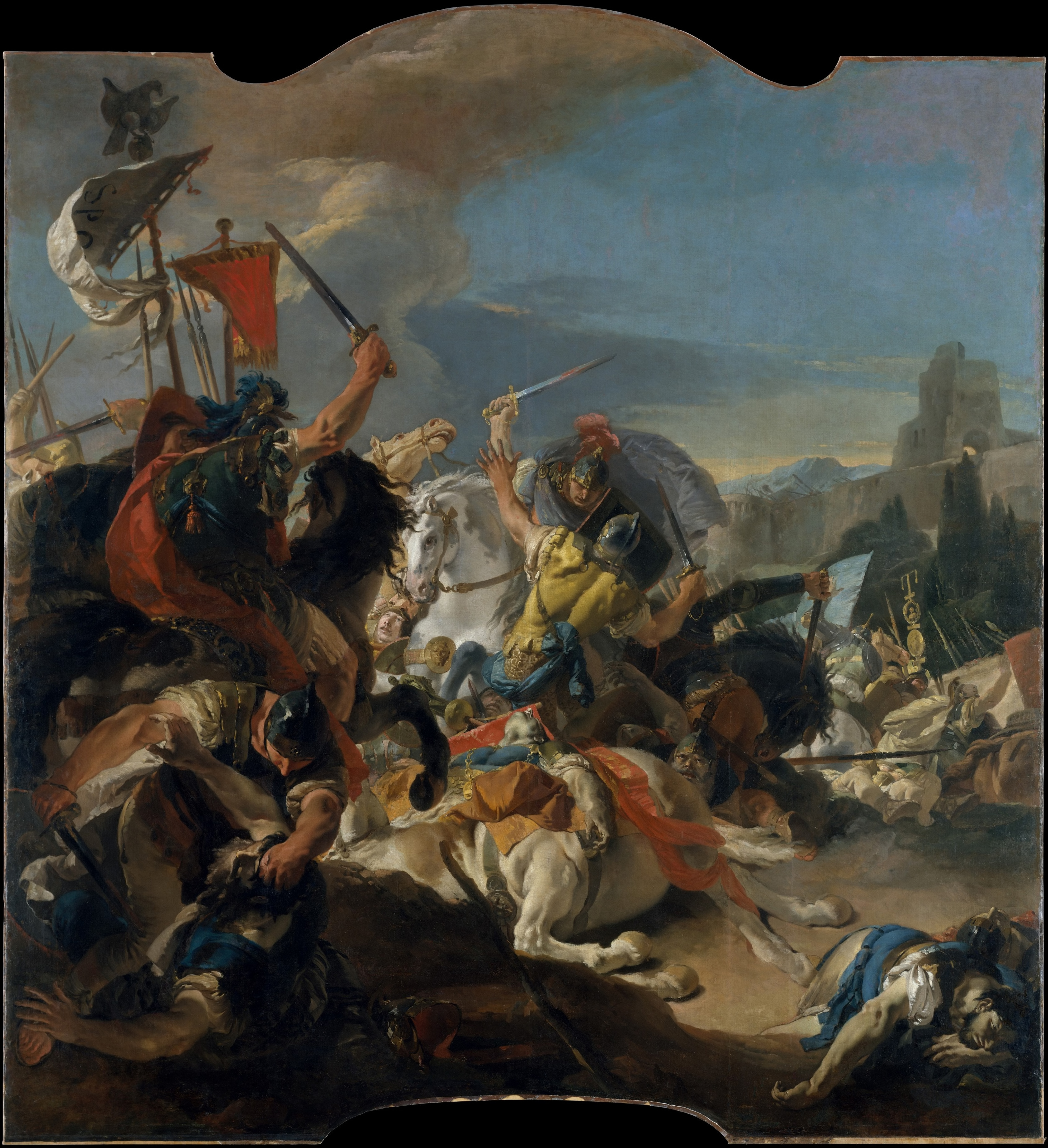 Depiction of the Battle of Vercellae. Oil on canvas, Irregular painted surface, 162 x 148 3/8 in. (411.5 x 376.9 cm)